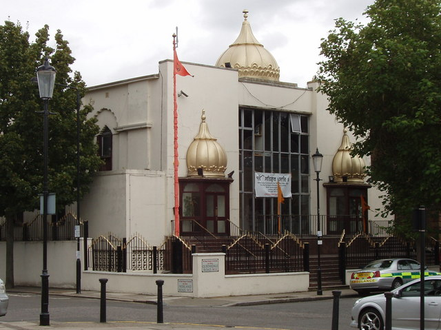 Sikh temple, Queensdale Road, Hammersmith The Central Gurdwara (Kalsa Jatha) London was founded in 1908 and moved to this site on the corner of Queensdale and Norland roads in 1969. The domes were added in the 1990s.